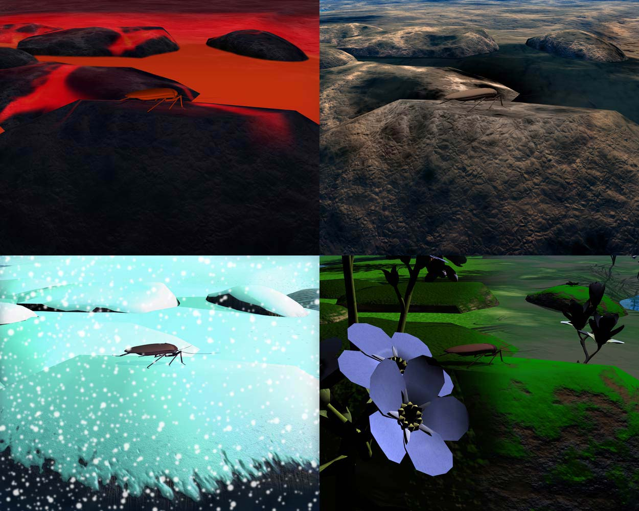 Place in Time, 2005.